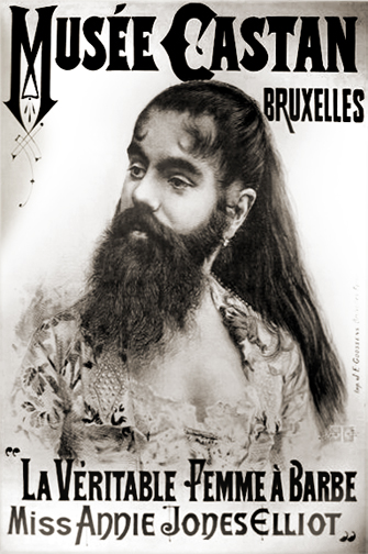 Annie Jones, who suffered from hypertrichosis.